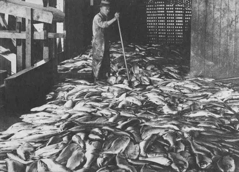 PH Coll 285.81 Subjects (LCTGM): Salmon--Washington (State); Fishing industries--Washington (State); Canneries--Washington (State); Chinese Americans--Washington (State)